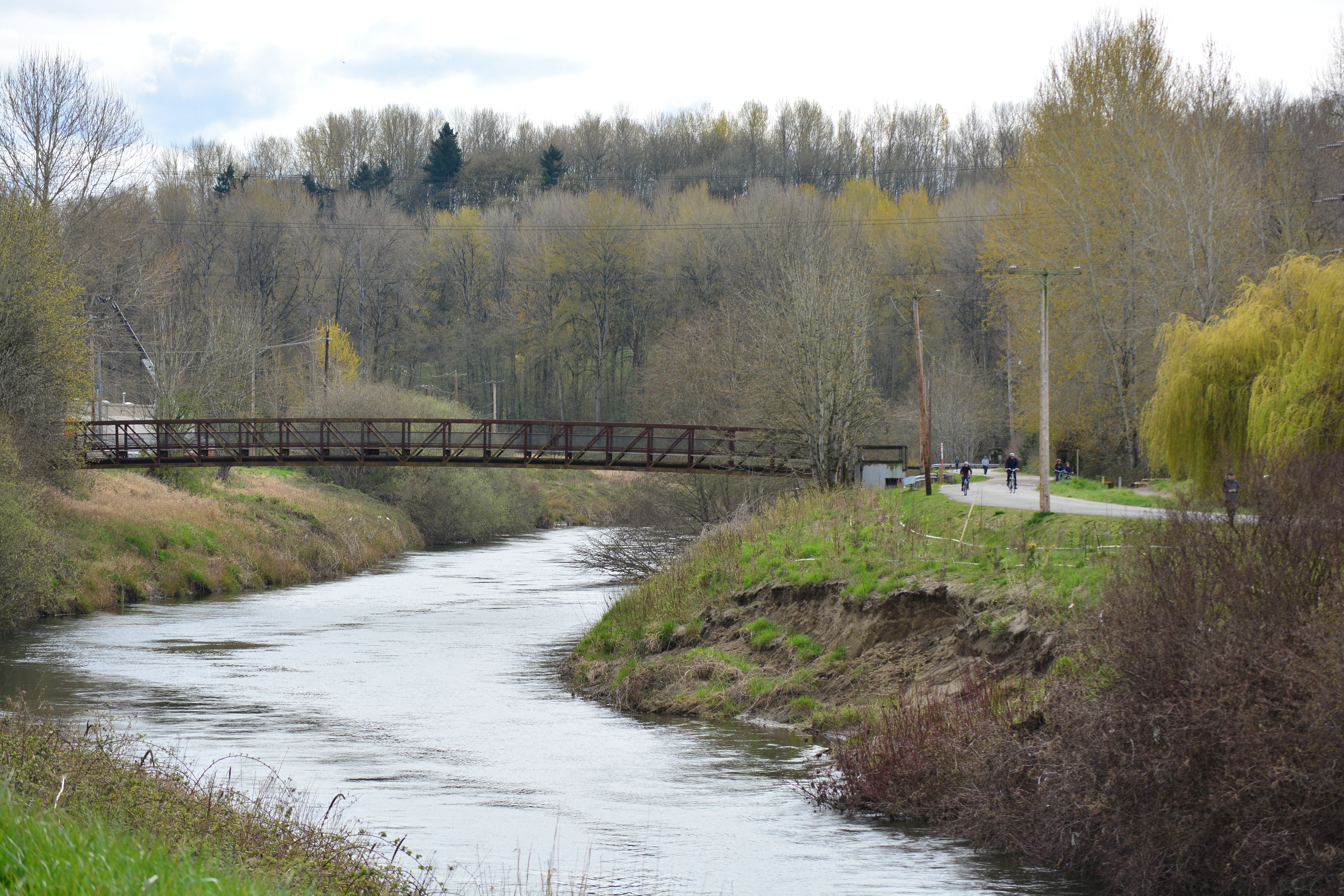 Looking upstream from just north of Van Doren's Landing Park along Russell Road S in Kent, Washington to the Puget Power Trail Green River Footbridge.